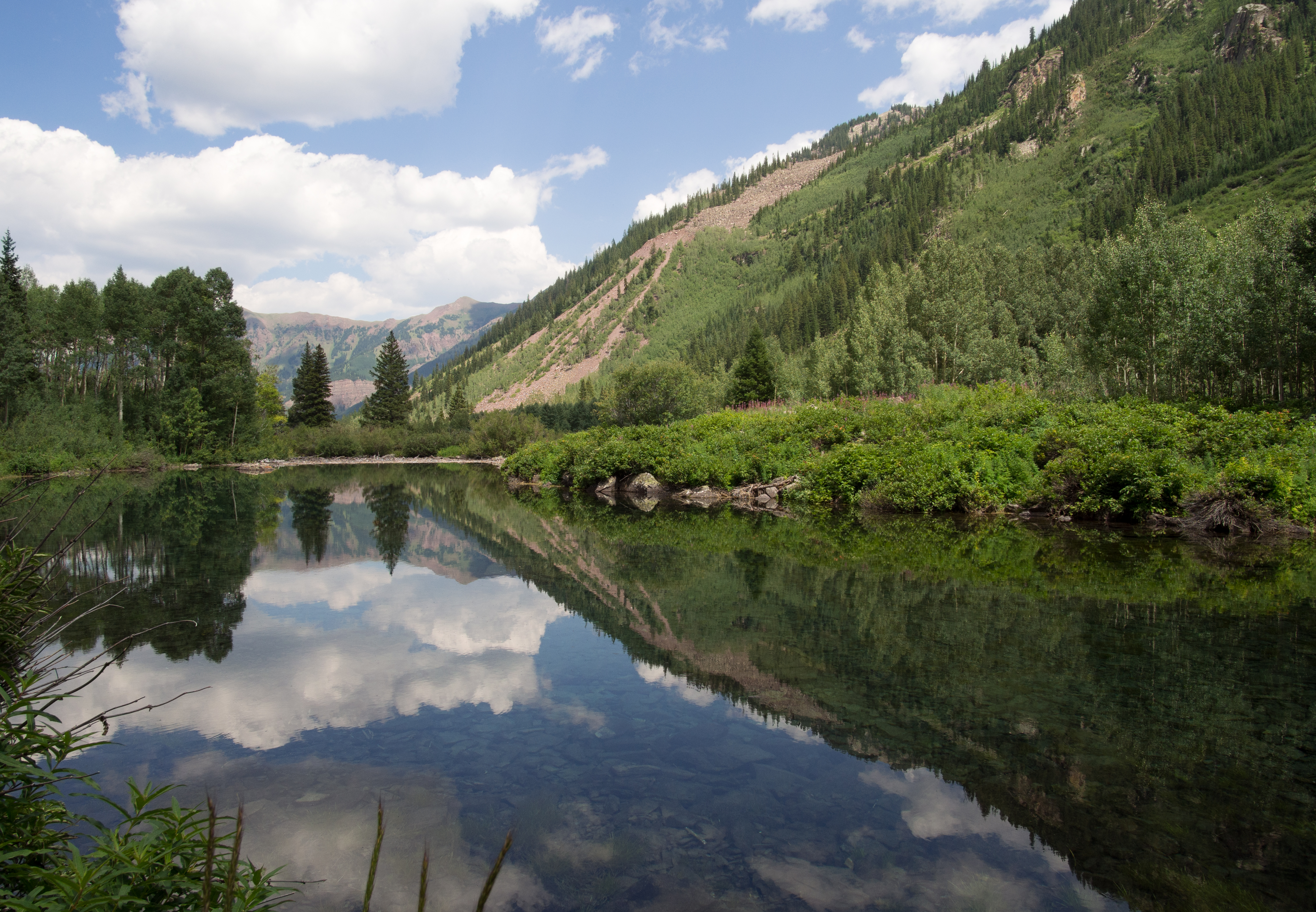 Body of water along West Maroon Creek, southwest of Maroon Lake in the Maroon Bells area in Aspen, Colorado. Facing east-northeast.